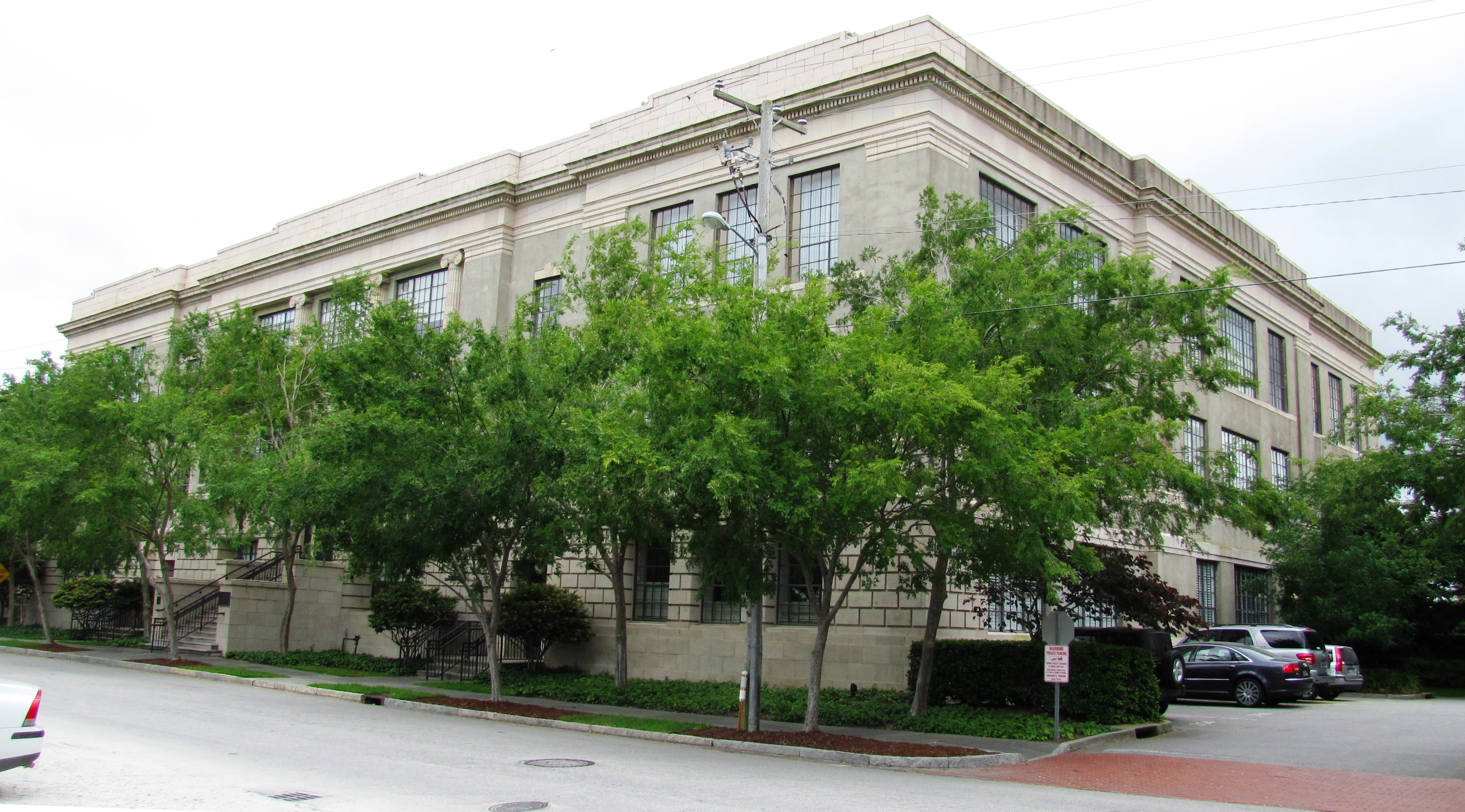 The NRHP-listed Andrew B. Murray Vocational School building in Charleston, South Carolina, USA. Built in 1923, the school operated until 1970. The building has since been converted into a condomenium complex.